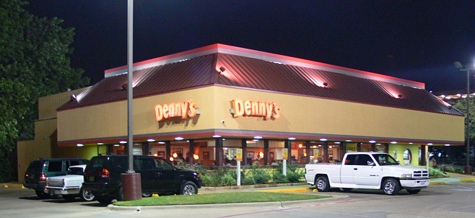 A Denny's Diner restaurant in Dallas, Texas, at night